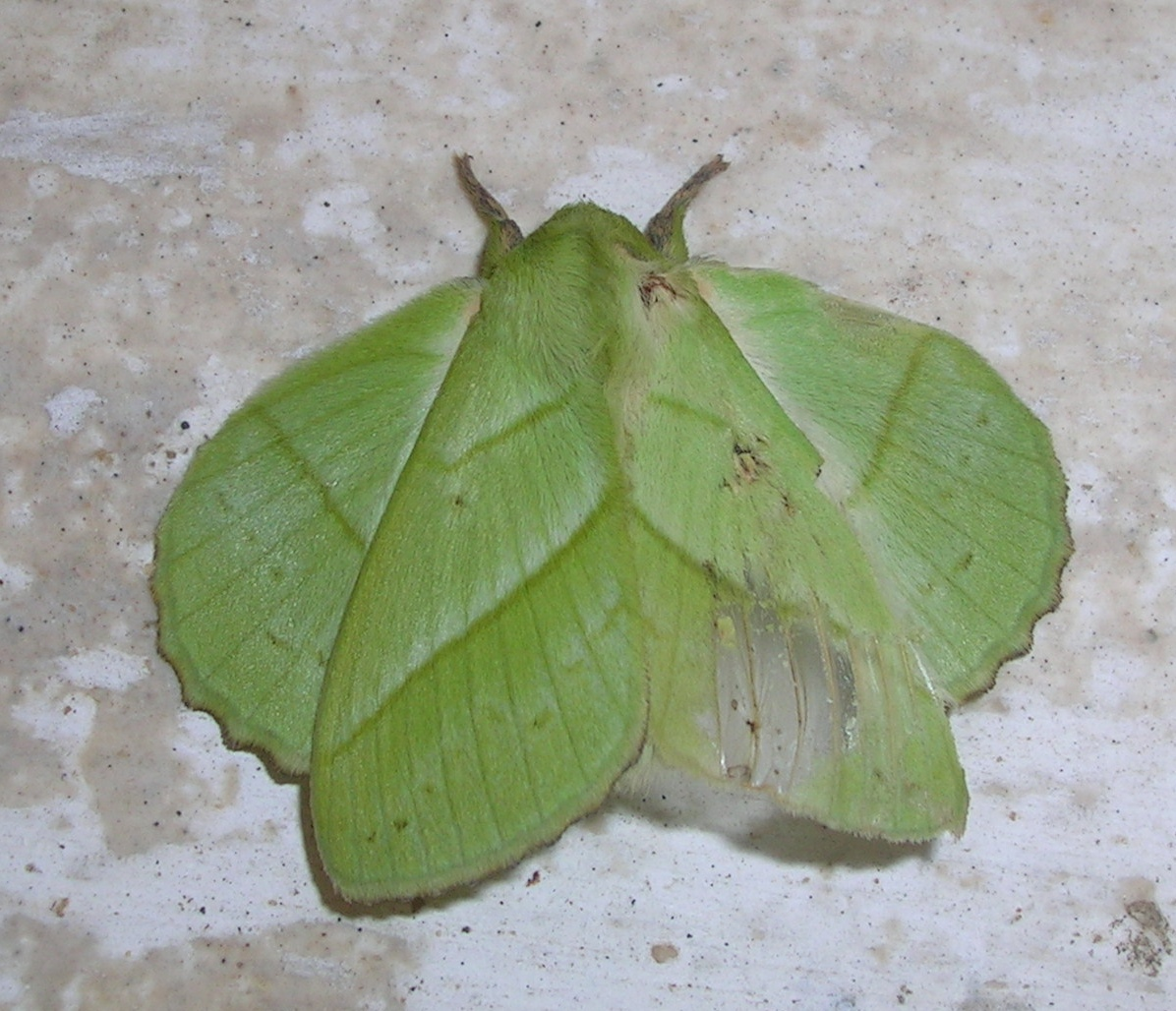 Trabala sp. (Lasiocampidae), Mudigere, Karnataka (Determination courtesy: Roger Kendrick, )